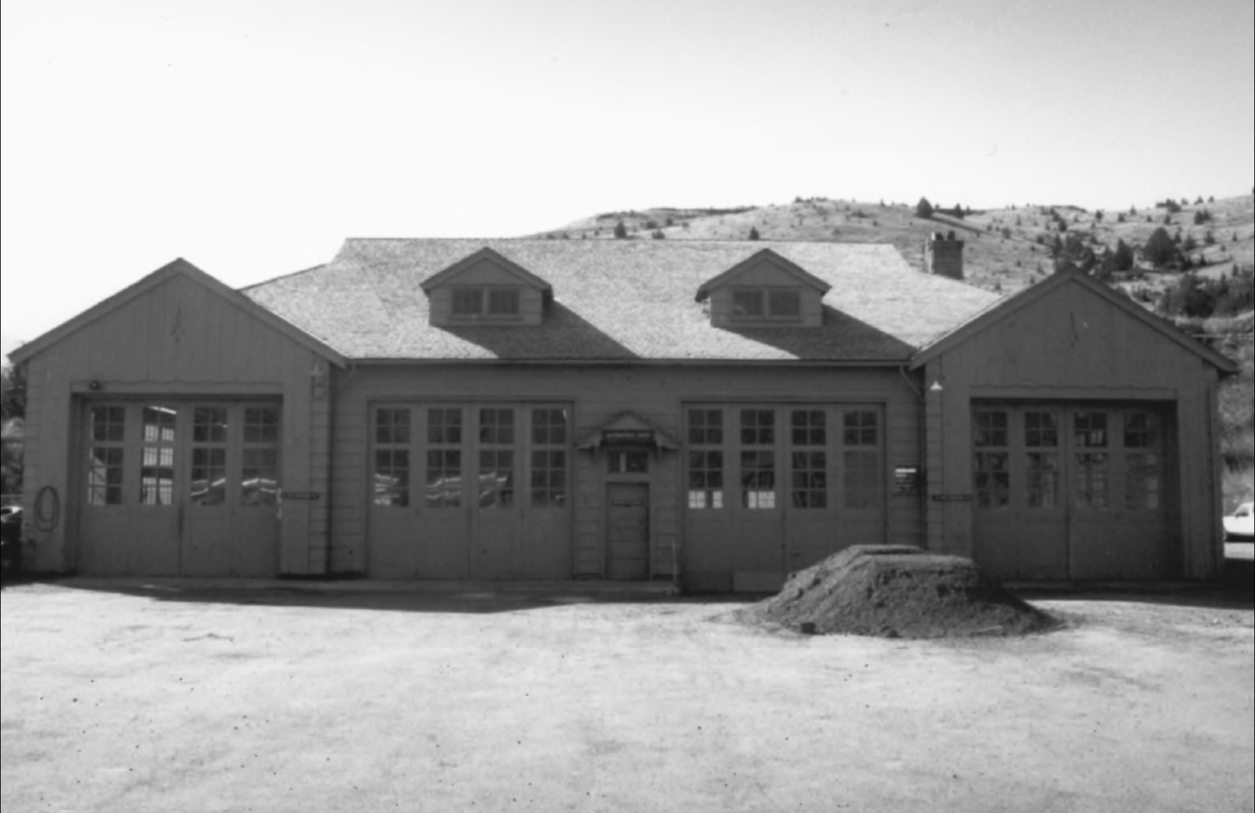 John Day Forest Service Compound, looking south at the main automotive repair shop